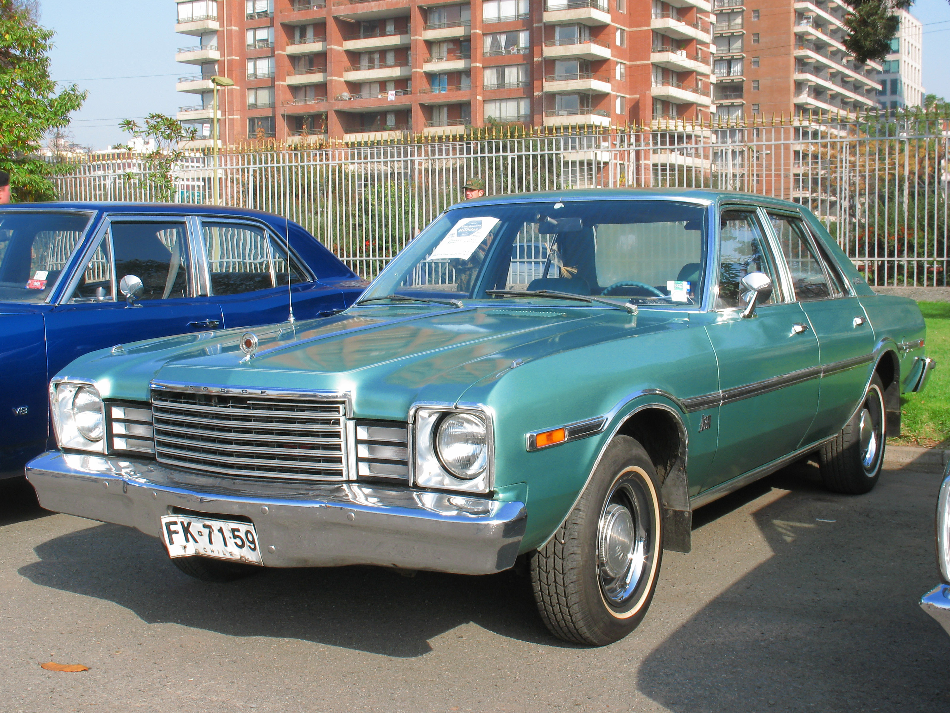 Dodge Aspen Special Edition 1979